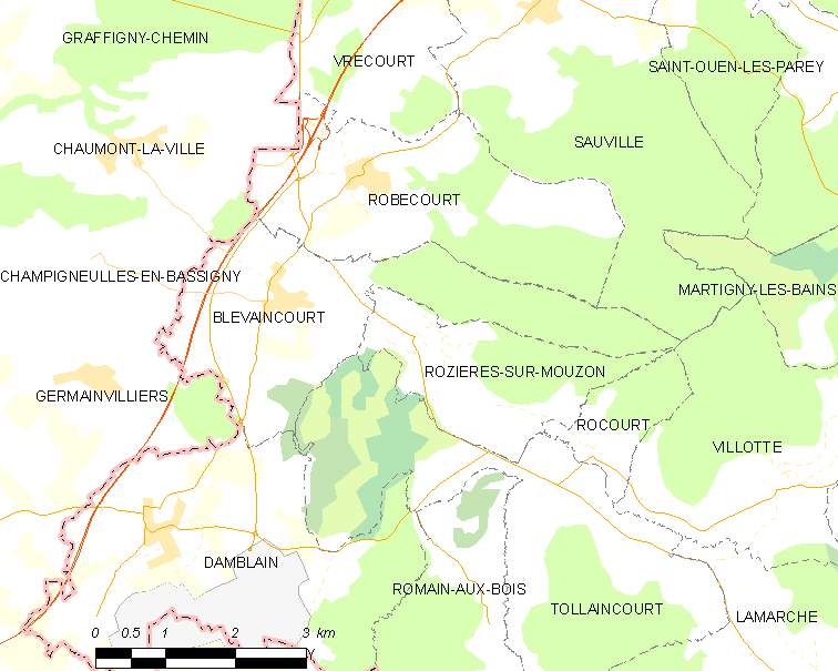 Map of French municipality Blevaincourt